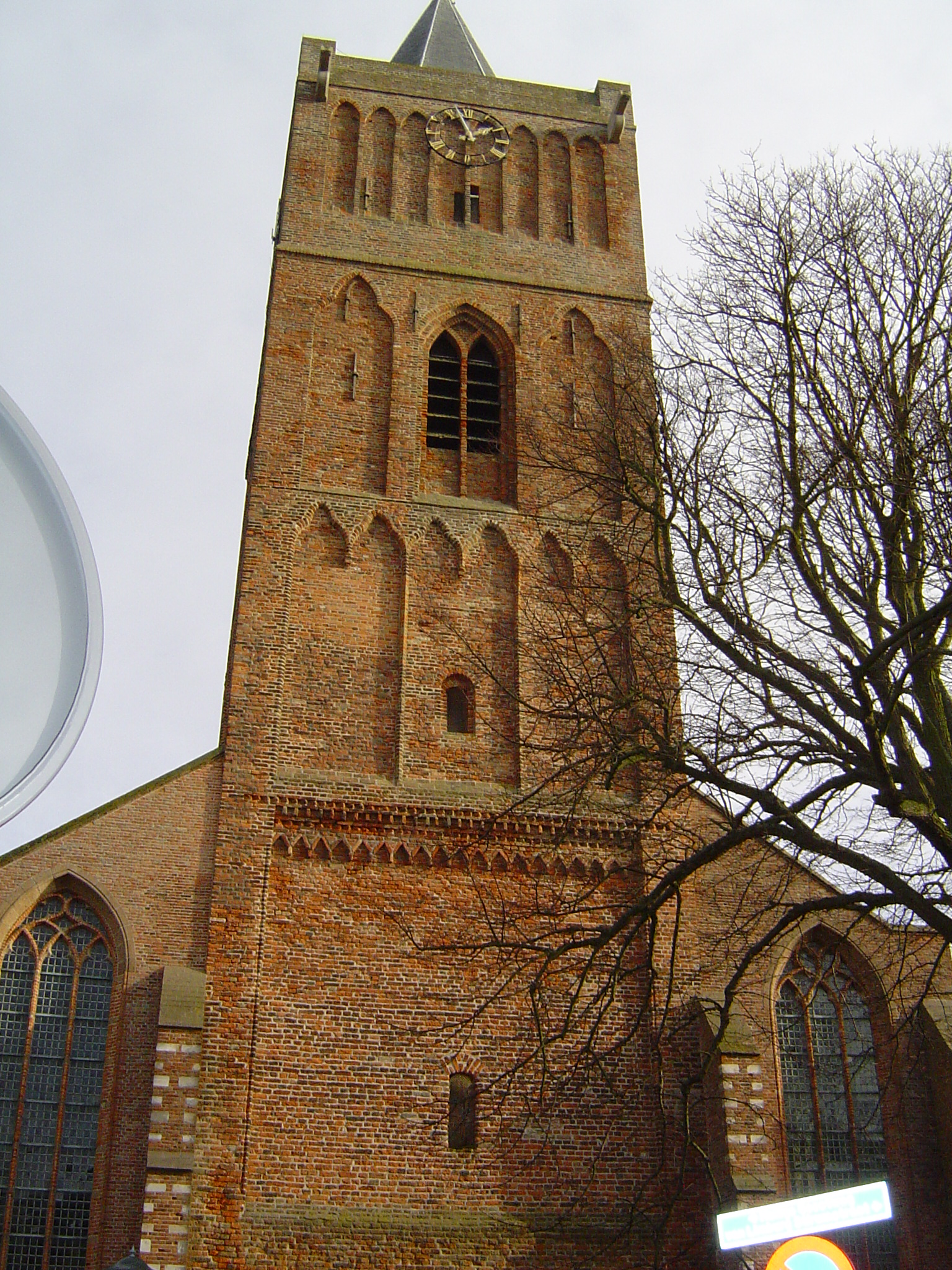 Grote of Sint-Jeroenskerk - Noordwijk, the Netherlands. Tower built in C13.